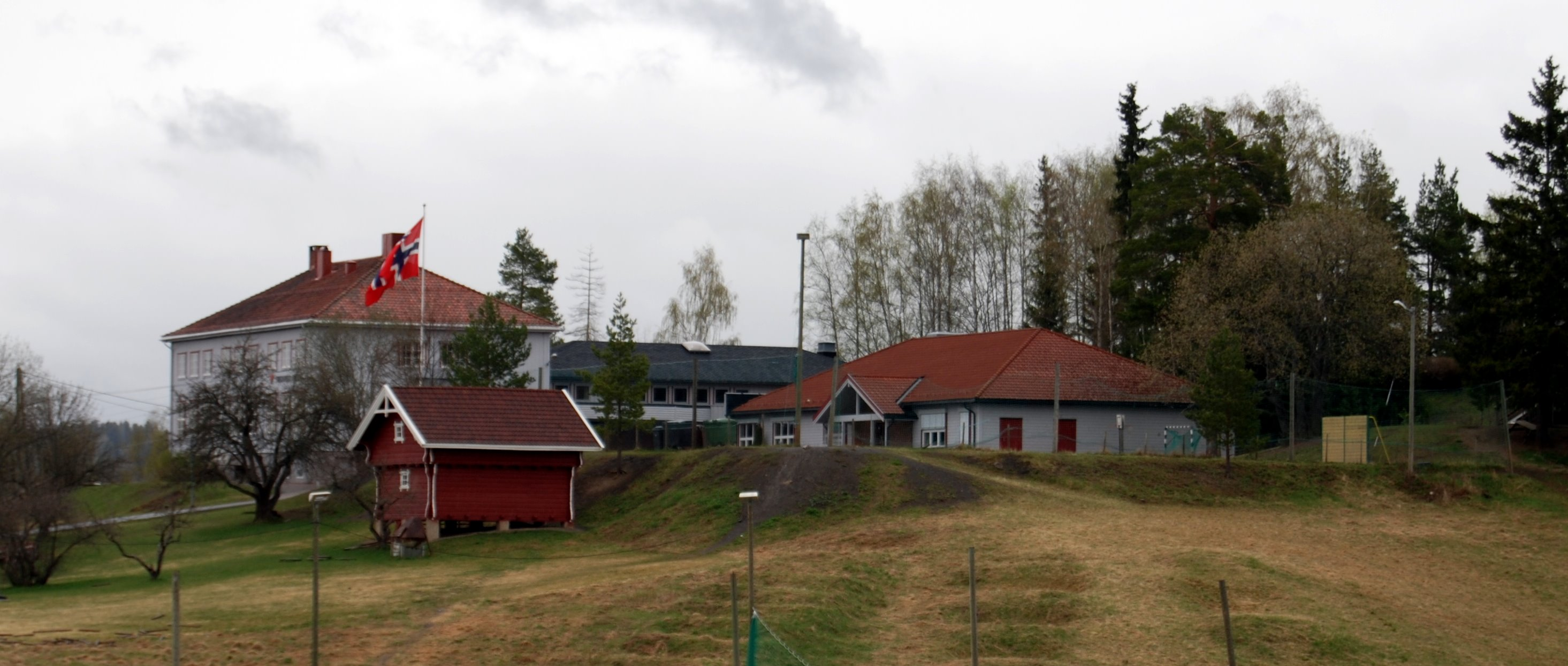 Brandbu lower secondary school, Gran, Oppland, Norway.